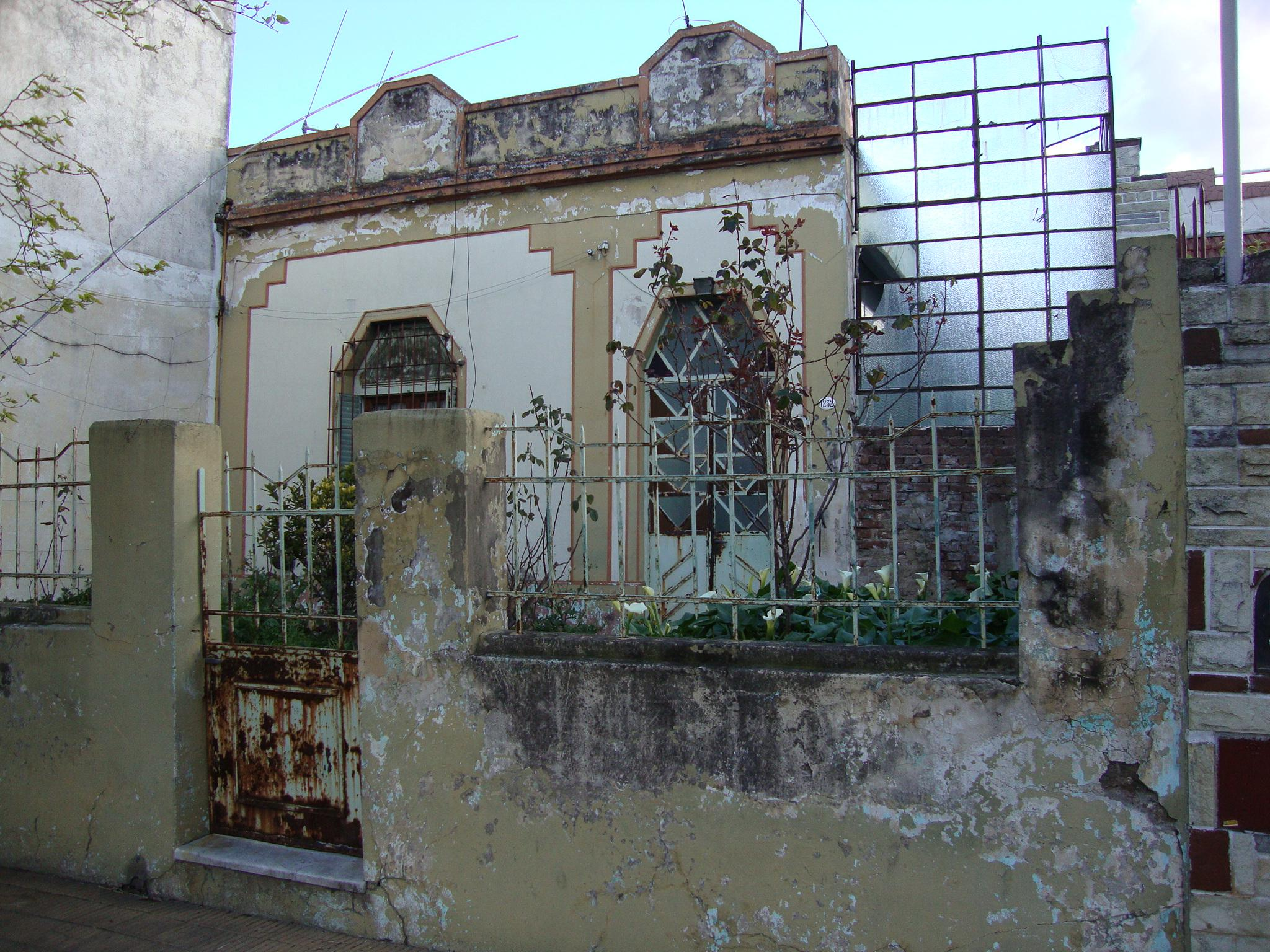 House on Echenagucía 1232, Versalles district, Buenos Aires, where the 1985 comedy, Esperando la carroza ("Waiting for the Hearse") was filmed. The Art Deco residence was built in 1929, and restored in 2011. [1]